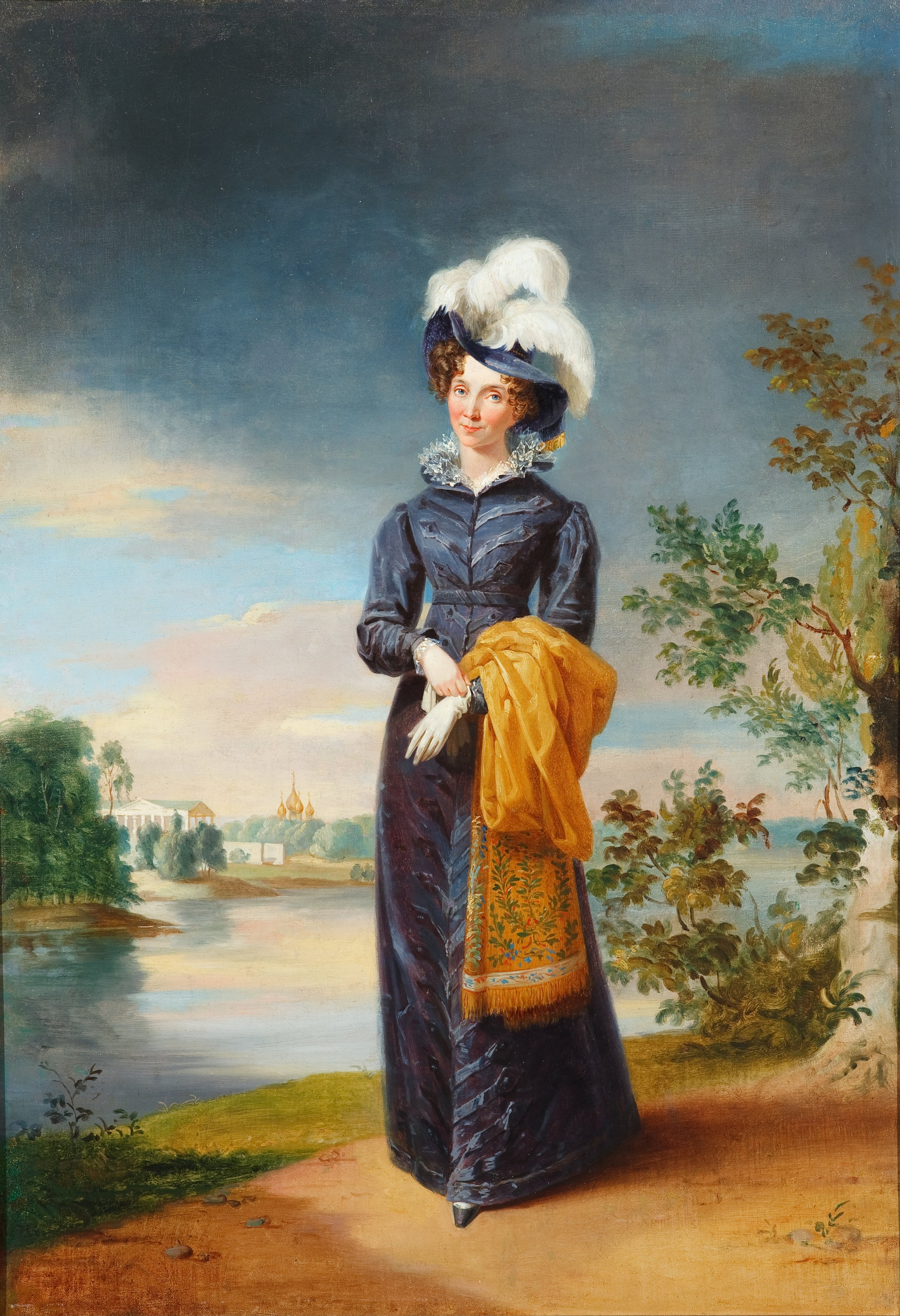 Portrait of Empress Elizabeth Alexeevna. Ministry of Culture of the Russian Federation, via Google Cultural Institute.